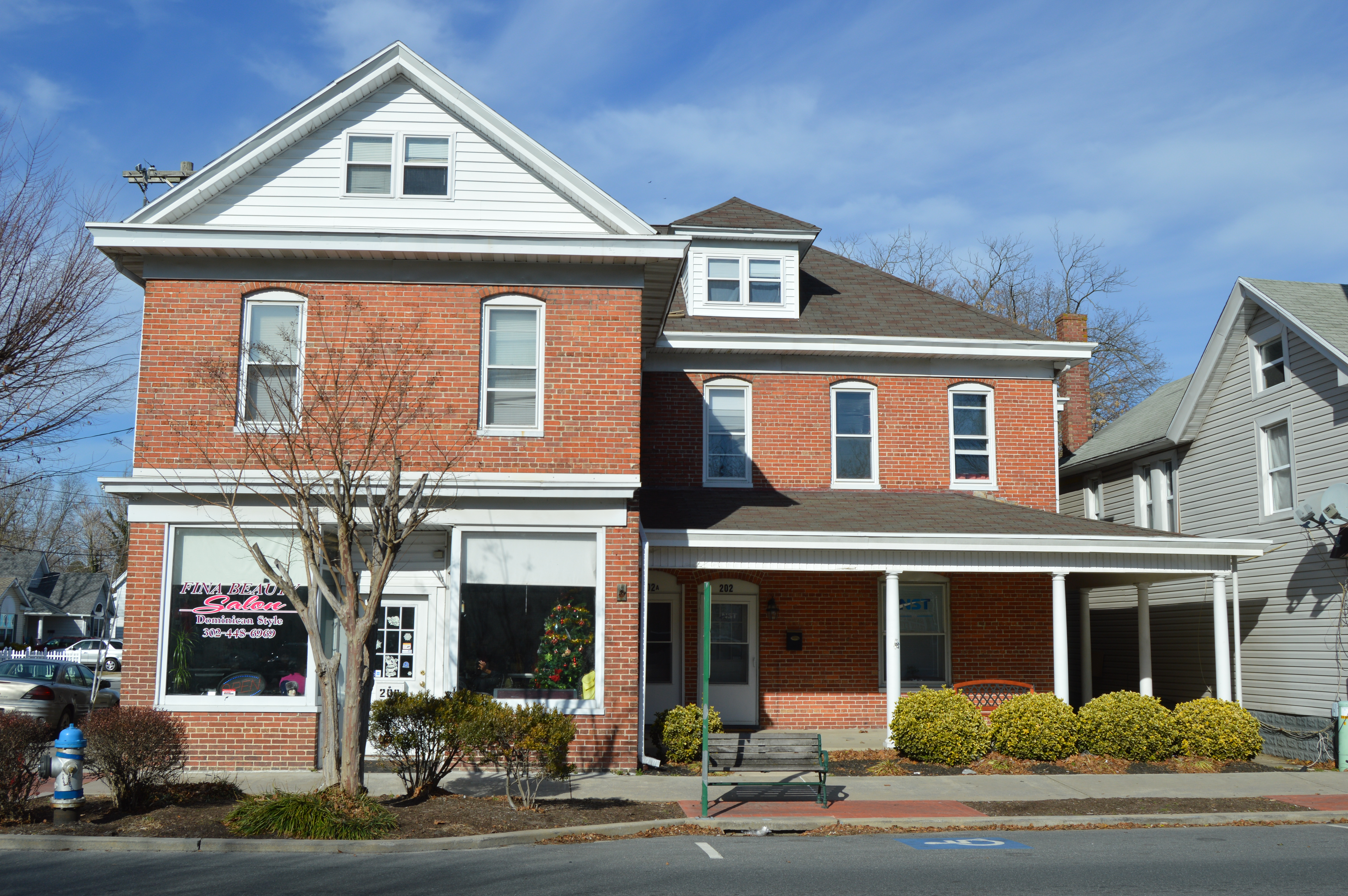 Front of the Building at 200-202A High Street in Seaford, Delaware, United States. Built in 1910, it is listed on the National Register of Historic Places.